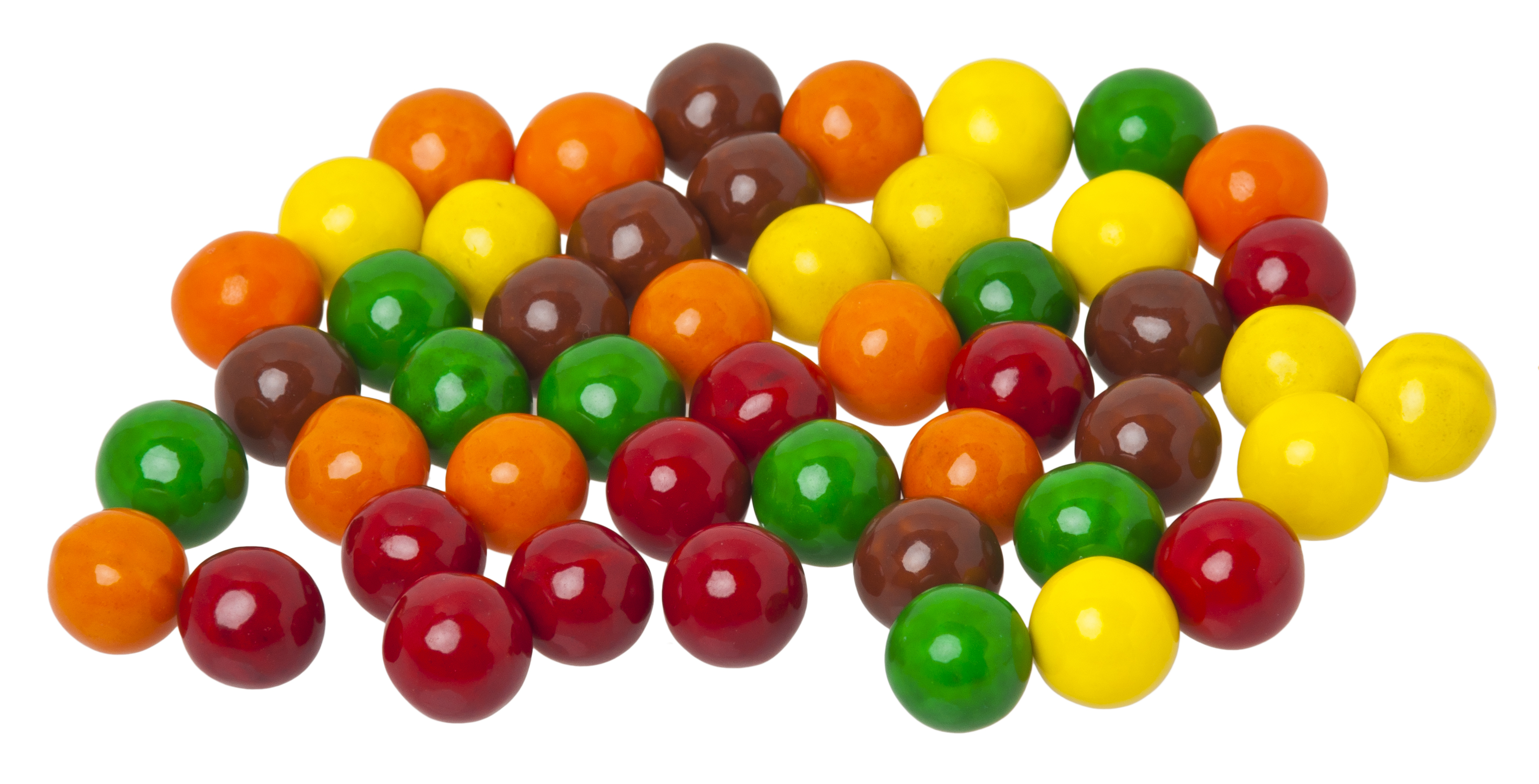 Sixlets candy. Terrible fake chocolate candy.